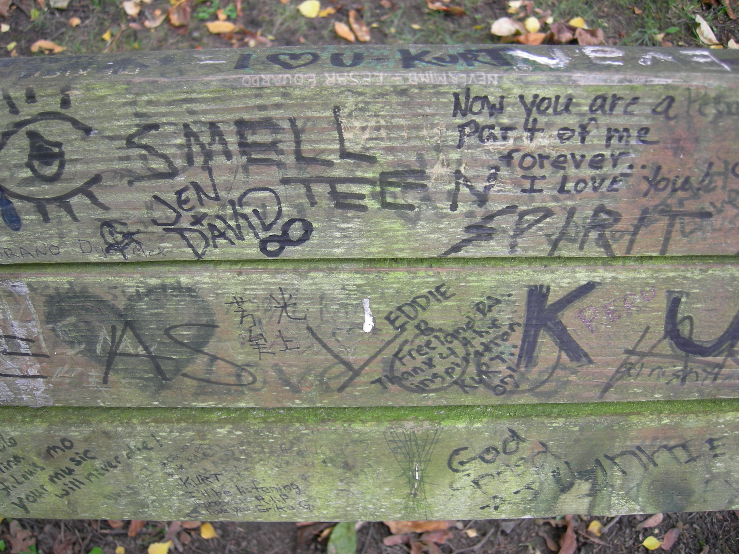 The bench in Viretta Park, Seattle, Washington, has been heavily graffitied as a de facto memorial to singer Kurt Cobain, who lived the last part of his life in a home directly adjacent to the park.